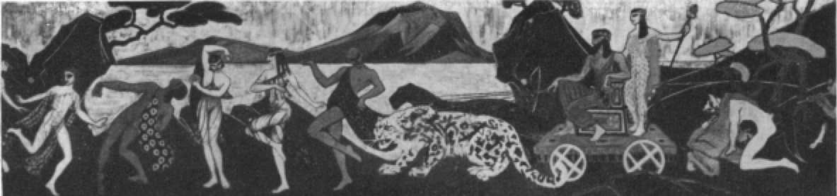 Black and white photo of a Portion of proscenium panel, marriage of Dionysius and Ariadne, by Edith Emerson, at the Plays and Players Theatre (then known as The Little Theatre) at 17th and Delancey Streets in Philadelphia, 1918